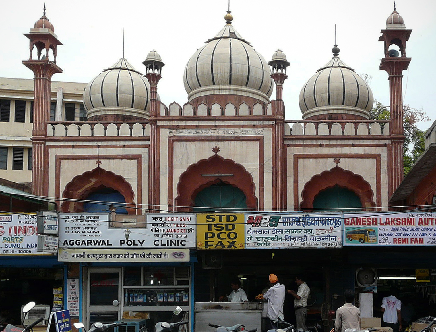 Lal Masjid at Kashmere Gate , Delhi